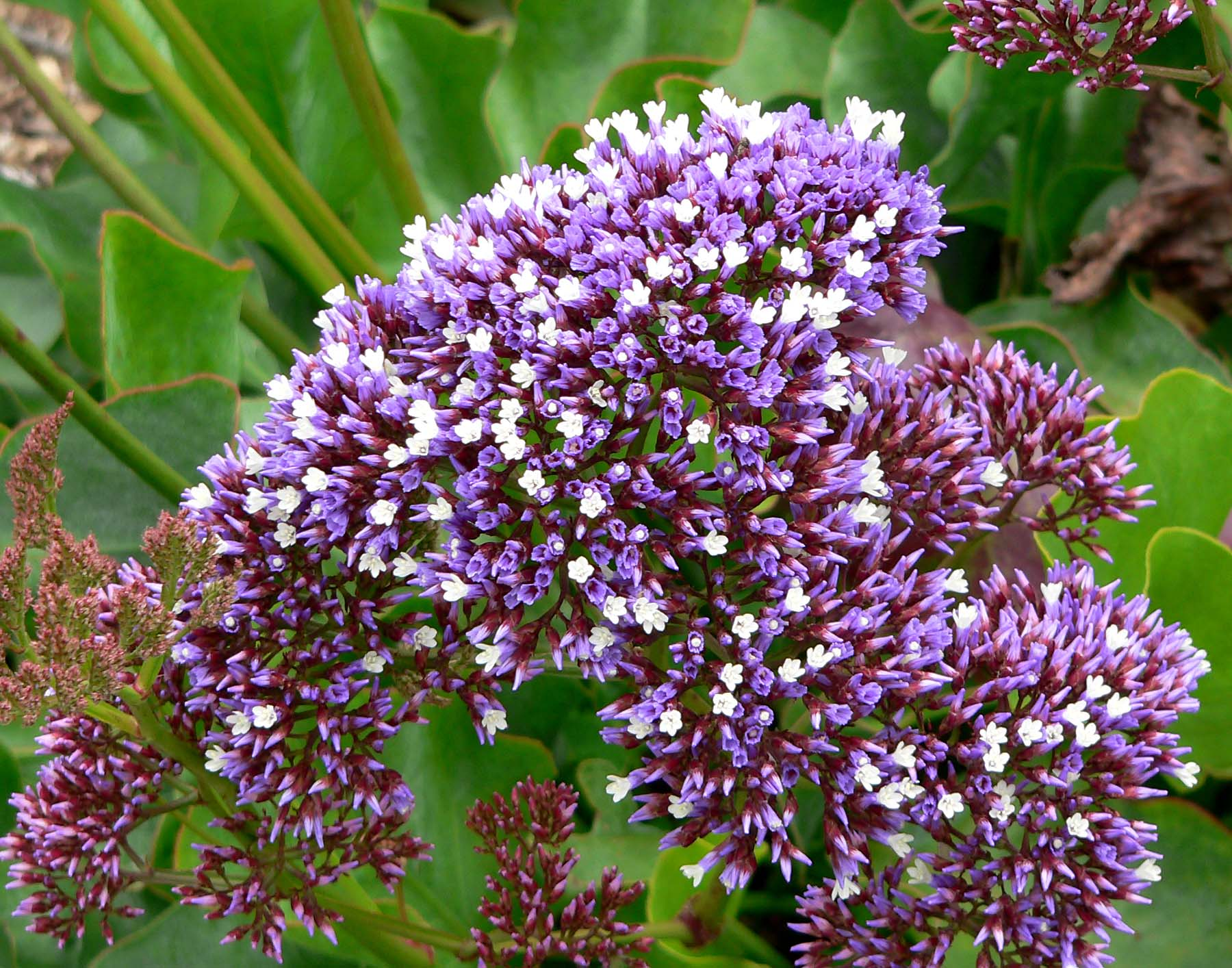 Photo of Limonium perezii at the San Francisco Botanical Garden